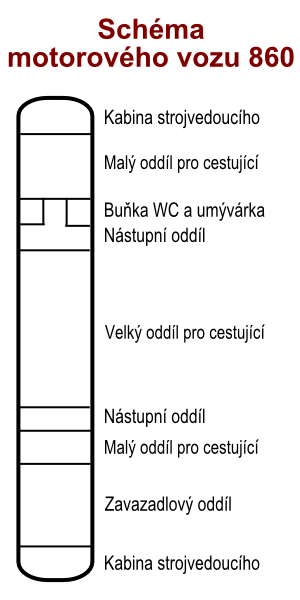 Interior scheme of railcar 860